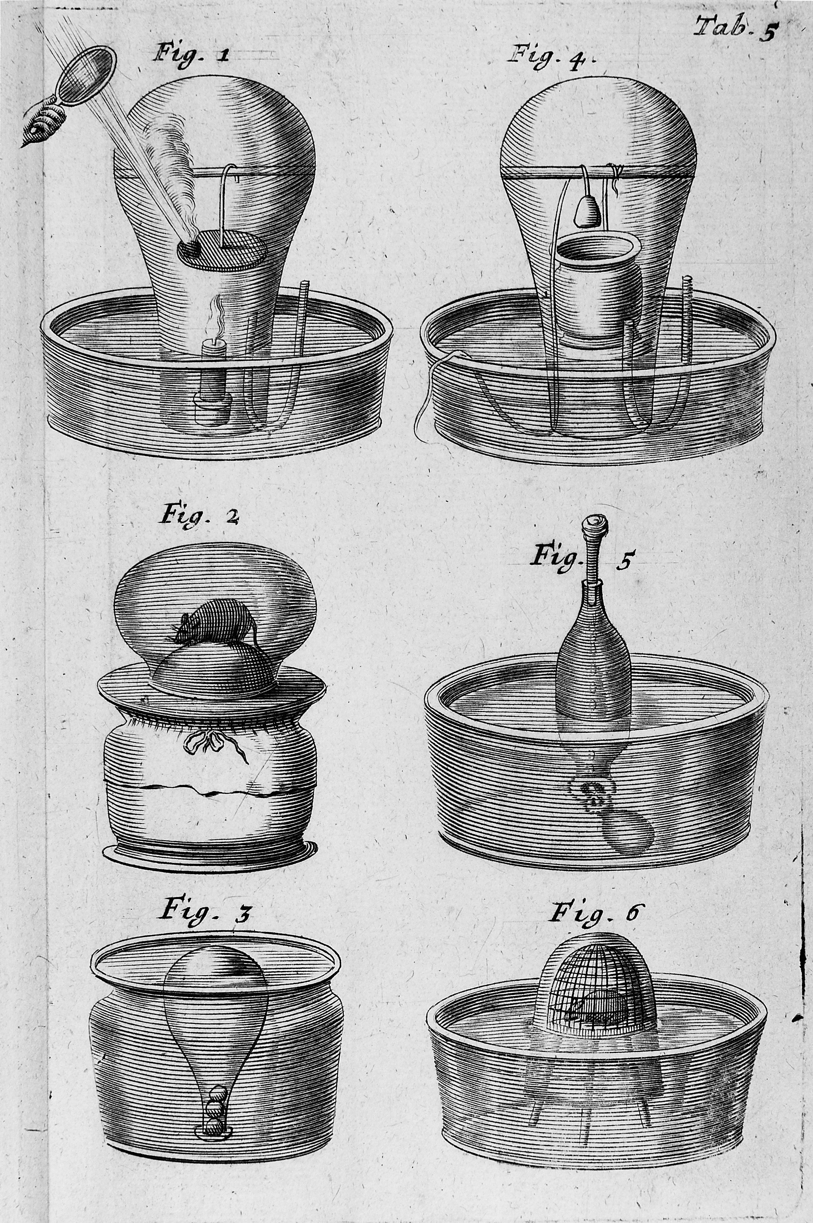 Experiments on combustion and respiration Rare Books Keywords: chemistry, 17th century; John Mayow; Physiology